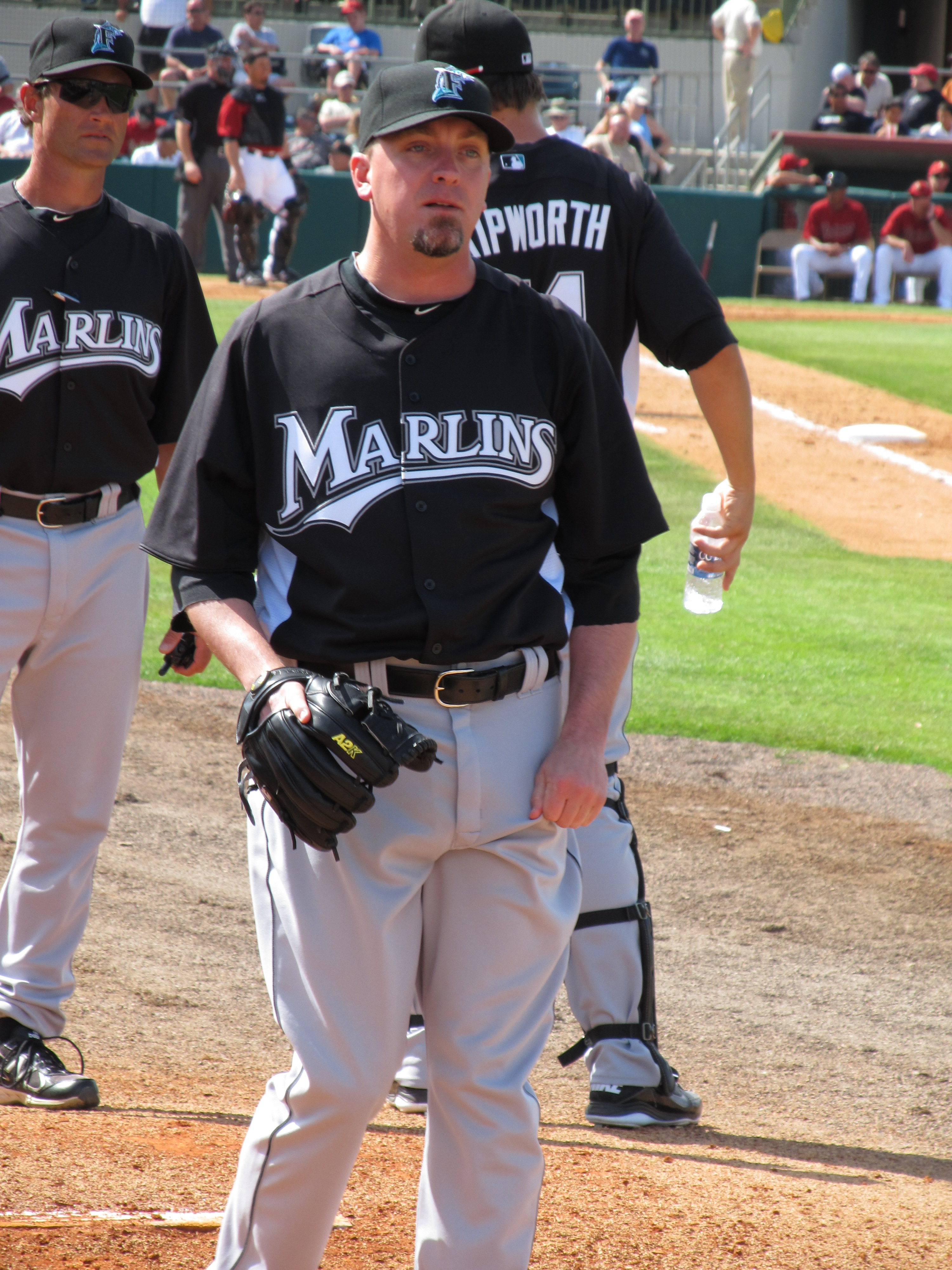 Randy Choate